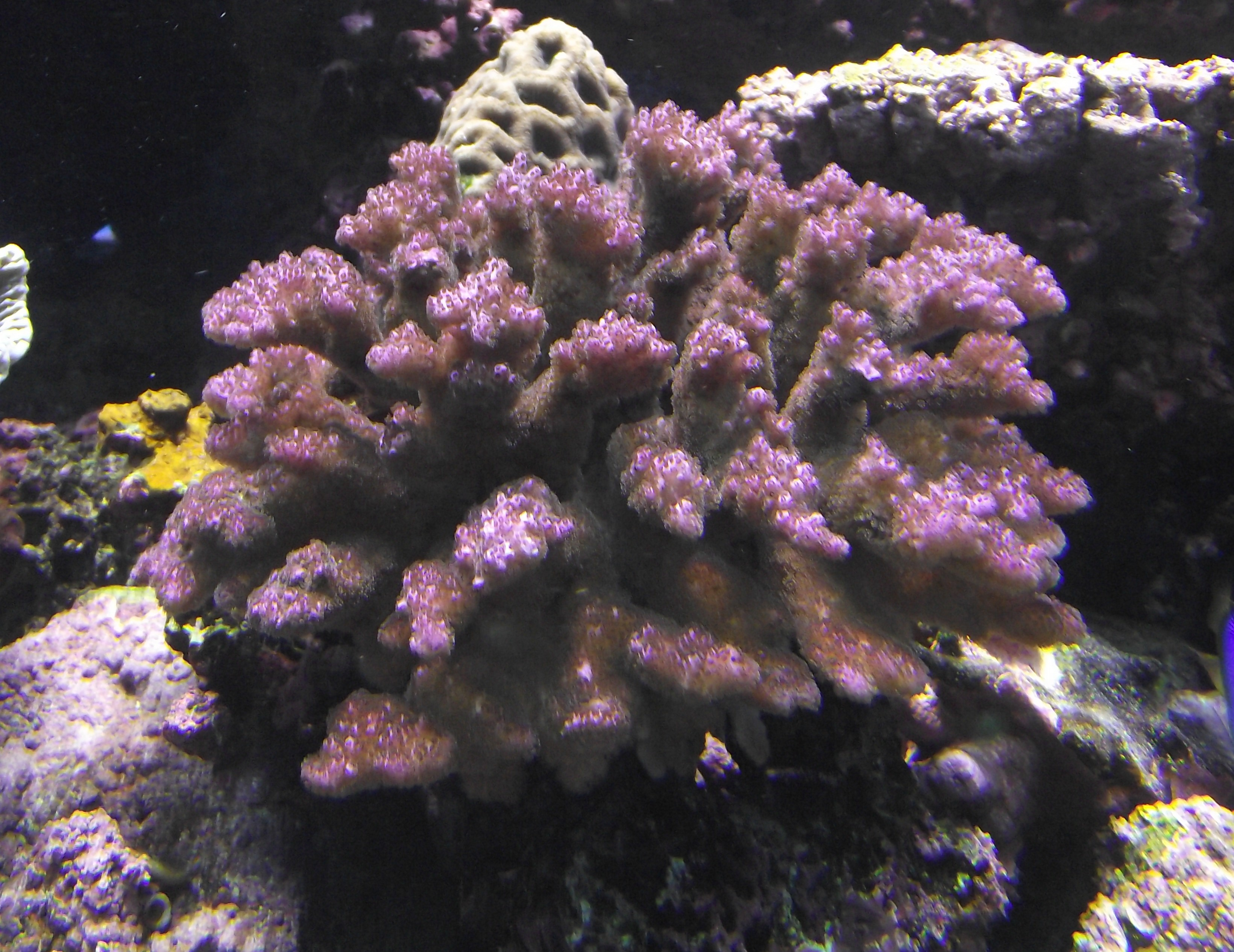 Pocillopora verrucosa at the Birch Aquarium, San Diego, California, USA.